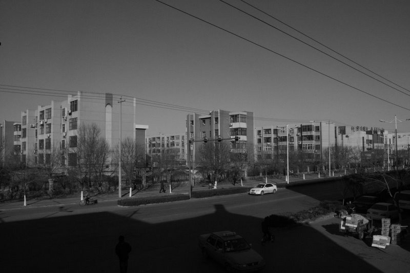 Company Authority Culture of dongying City，China